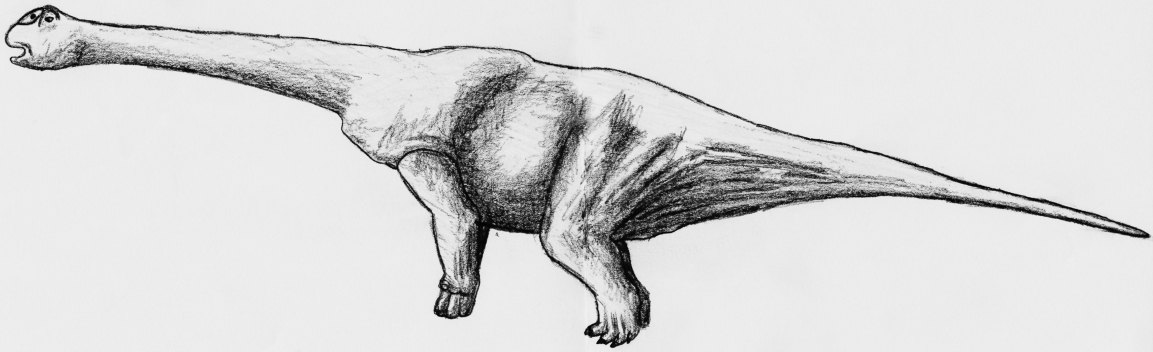 reconstruktion of argyrosaurus